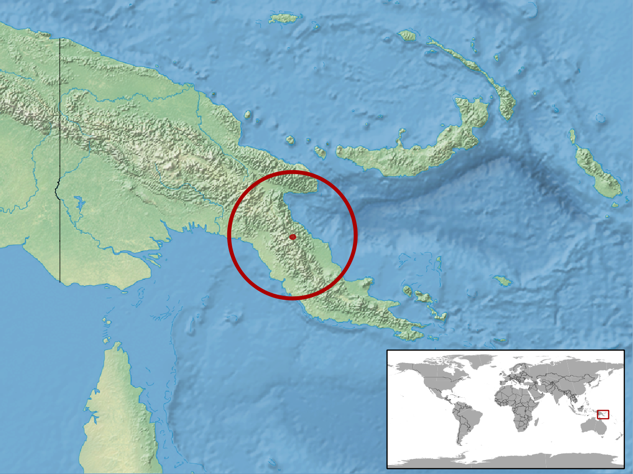 geographic distribution of Sphenomorphus microtympanus